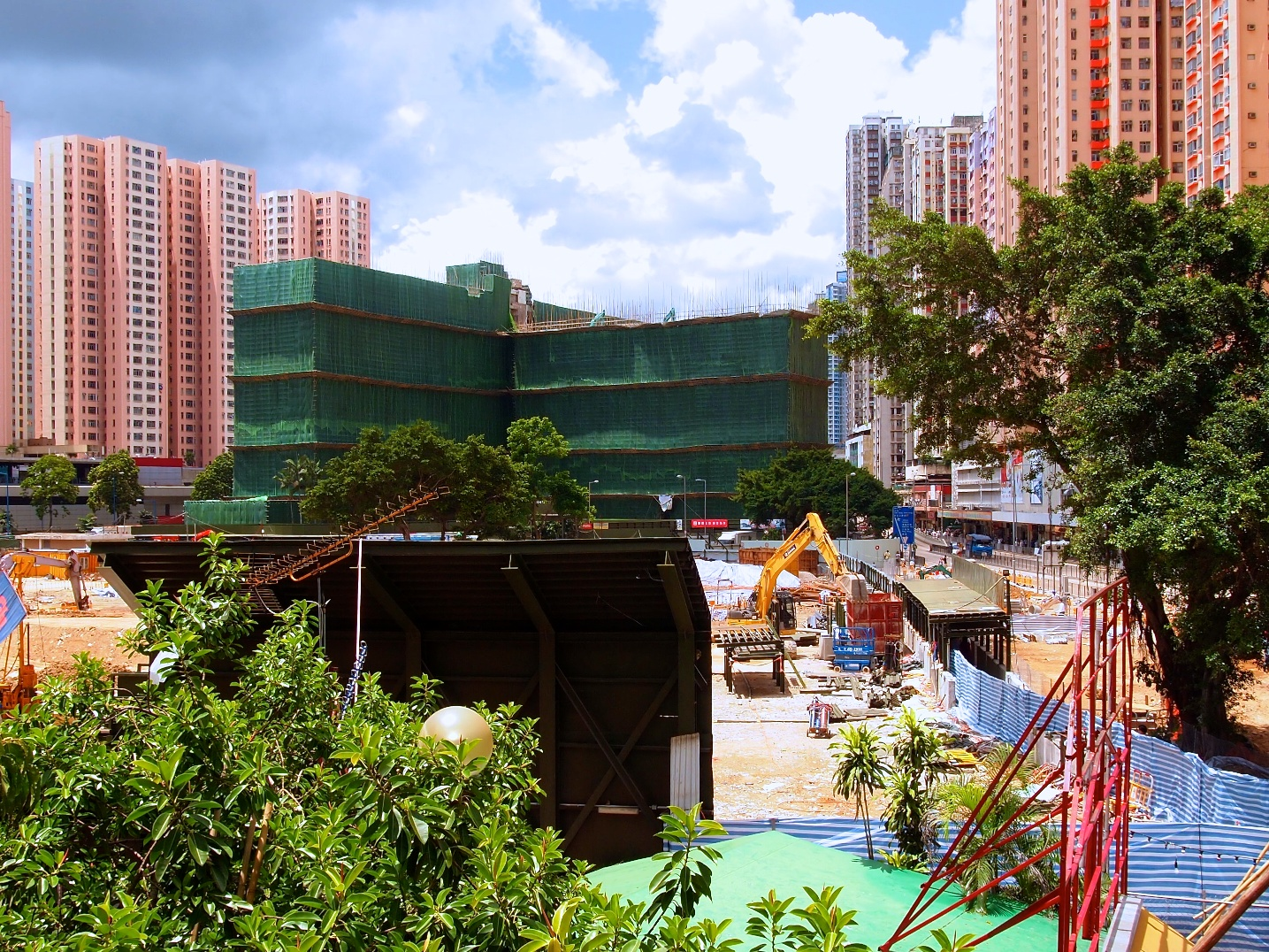 A view of the demolition site of the Block 13 and Block 14 of Lower Ngau Tau Kok Estate from Lower Ngau Tau Kok Estate No.8 Playground.